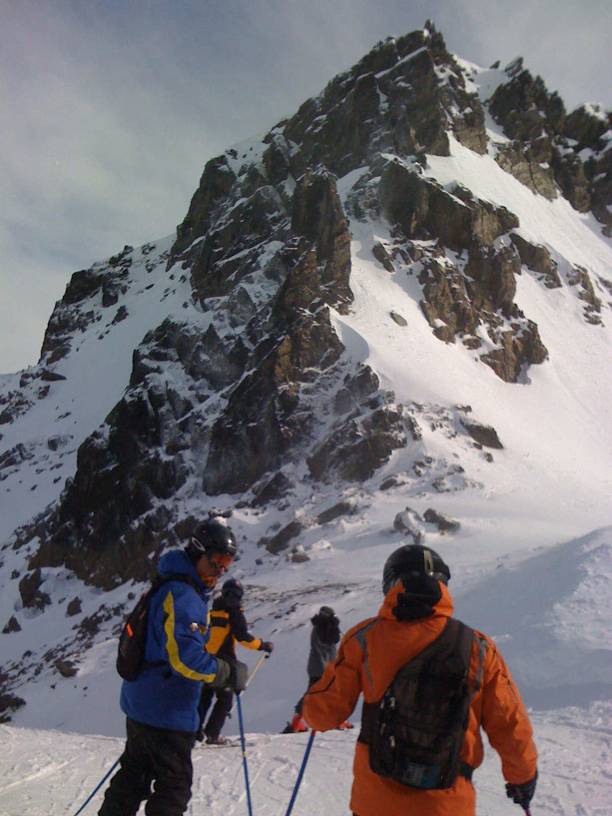 Sky at Cerro Castor ,Usuhaia,Argentina.